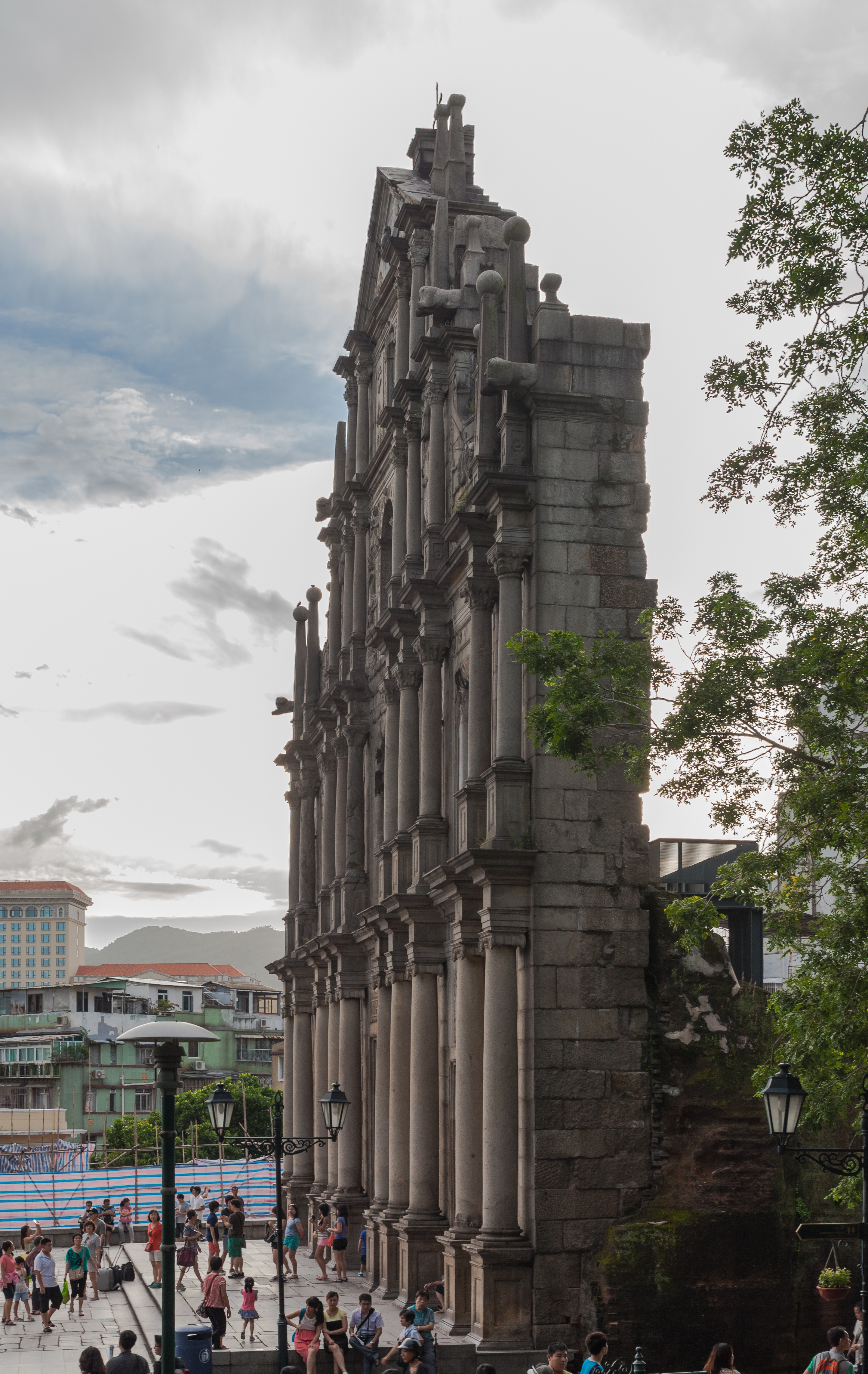 Remains of the Cathedral of Saint Paul, Macau